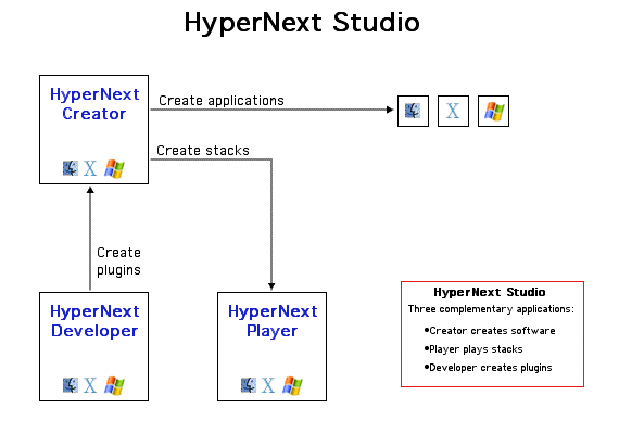 HyperNext Studio family, TigaByte Software